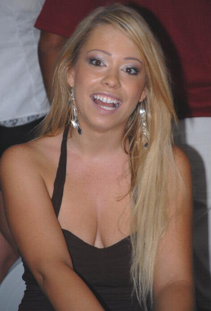 Brooke Scott at Protecting Adult Welfare event, September 1, 2007